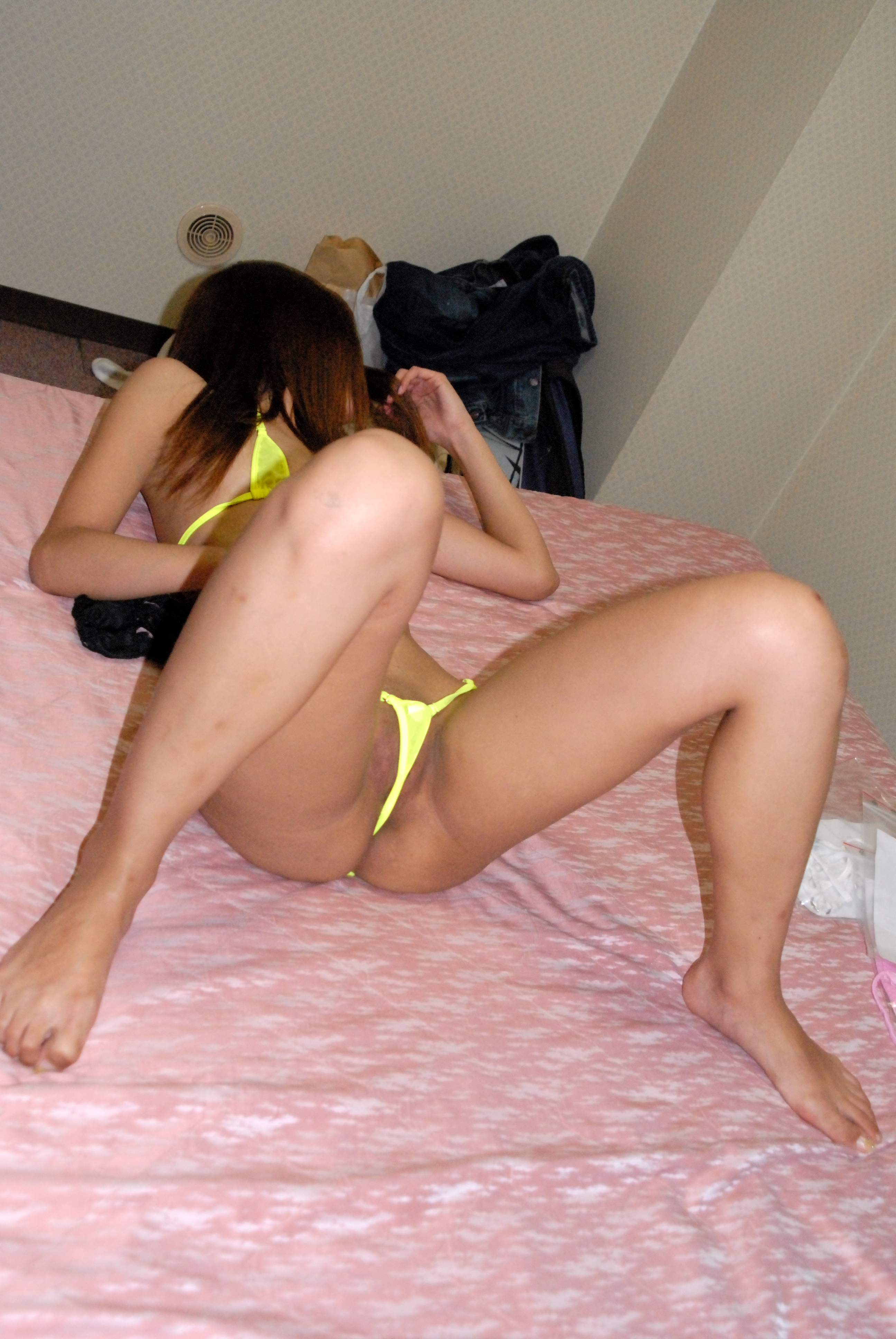 Japanese woman 23 years old at the time of shoot in Sublime Bikini's micro bikini opening her legs in M-shape on the bed.